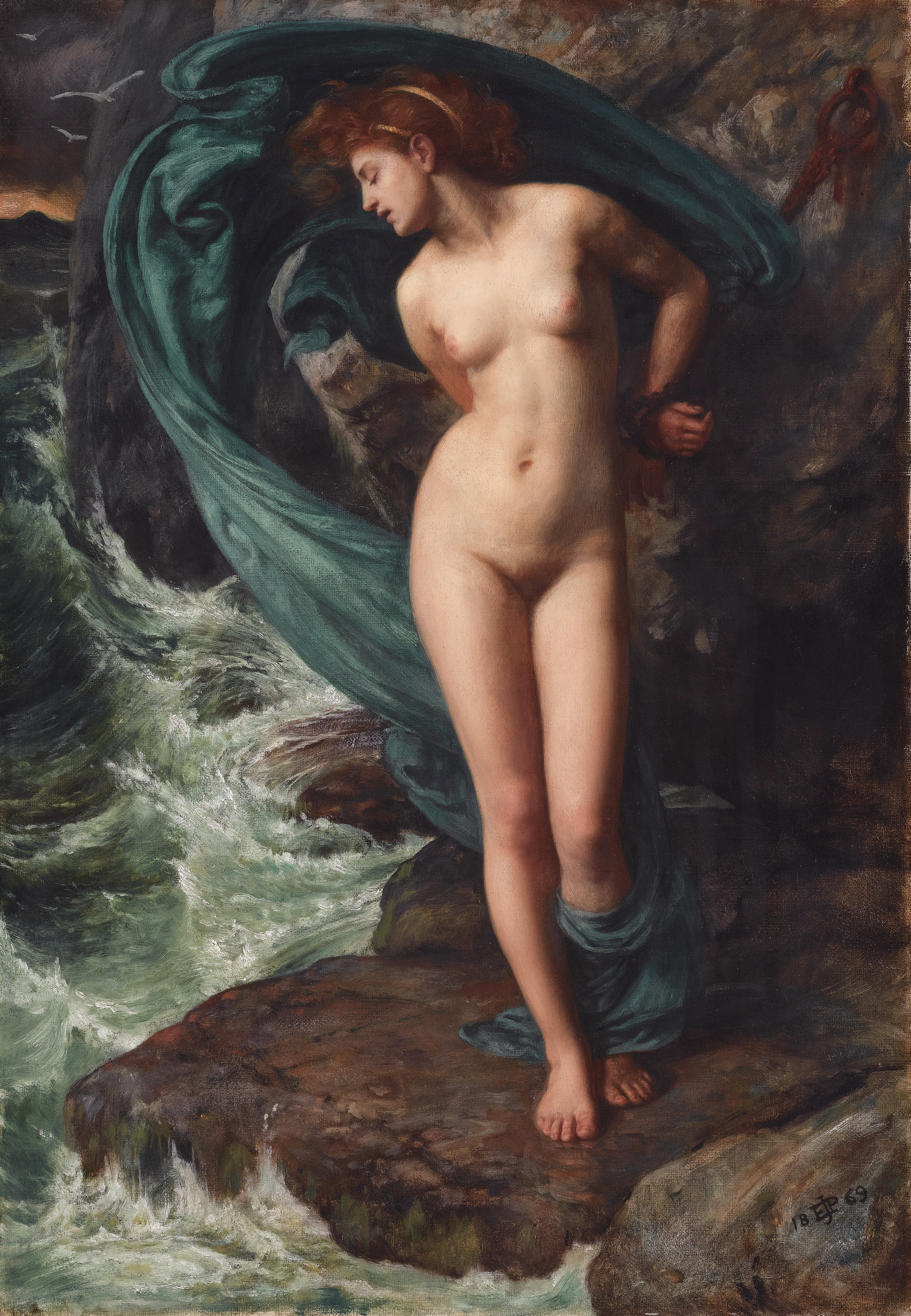 Andromeda chained to a rock as a sacrifice to sate the monster, before being saved from death by Perseus, her future husband.